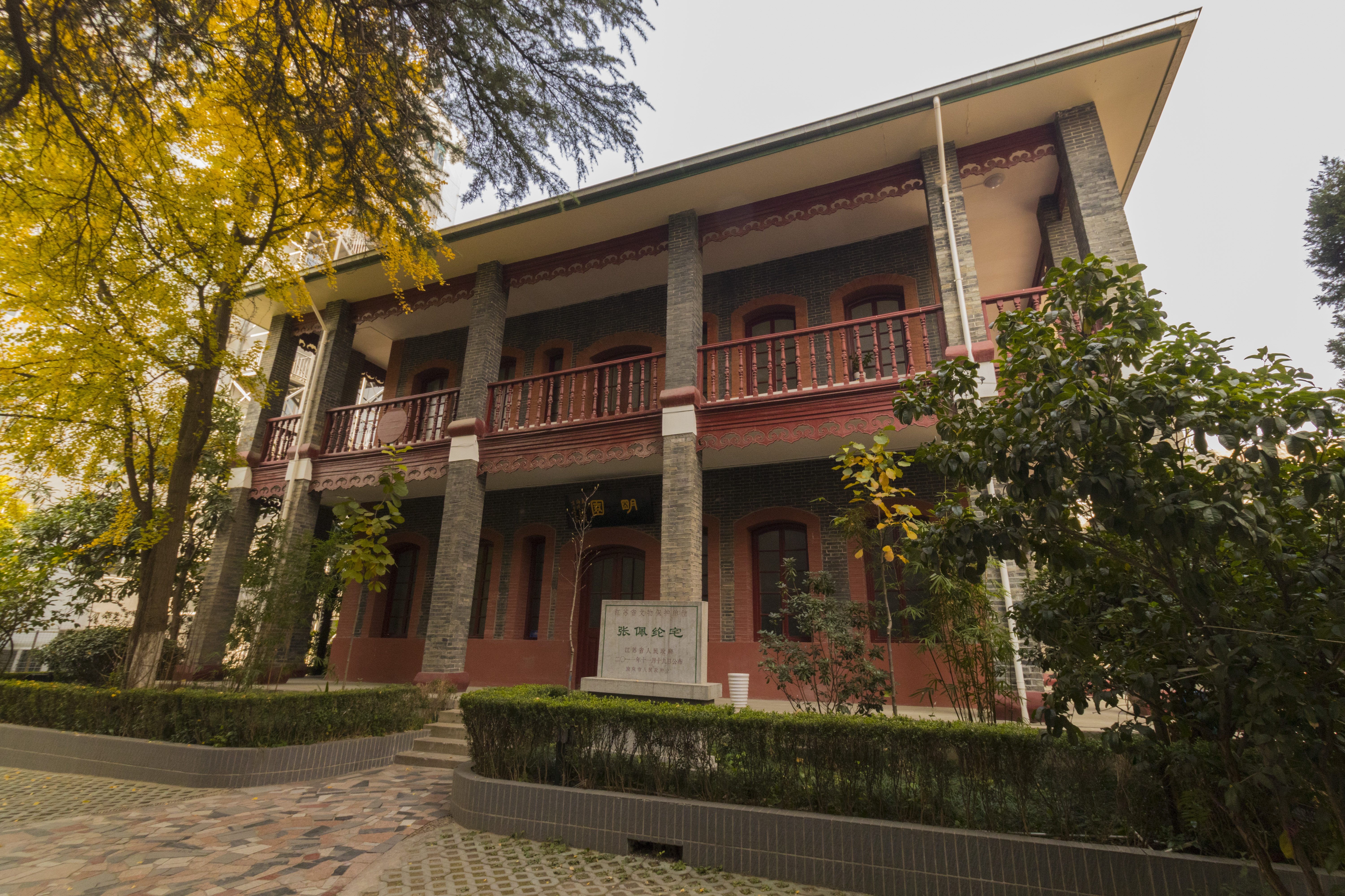 Residence of Zhang Peilun, also known as "the Mistress House", used as Legislative Yuan in 1928